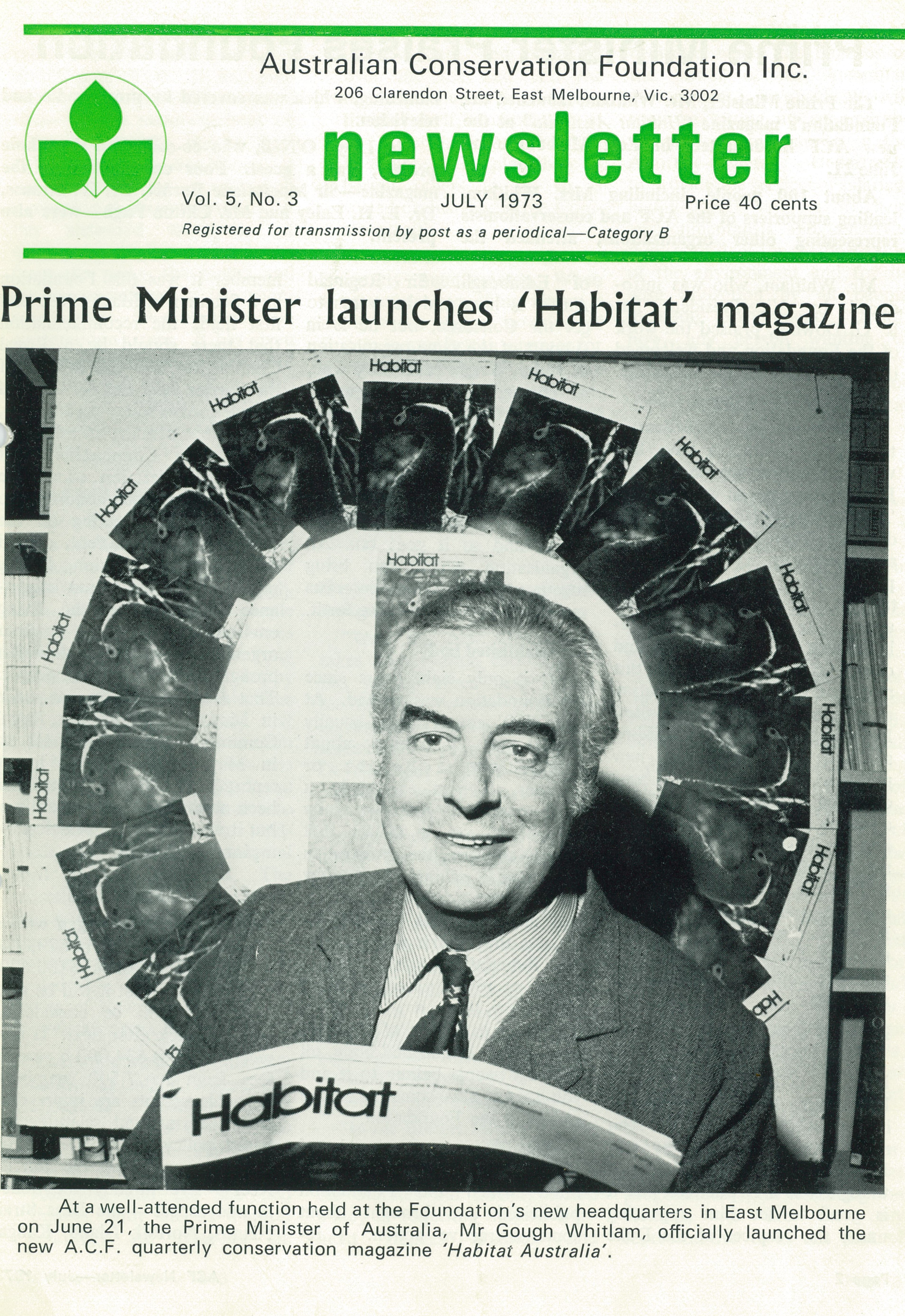 1973 Prime Minister Gough Whitlam launches ACF's new member magazine, Habitat Australia.